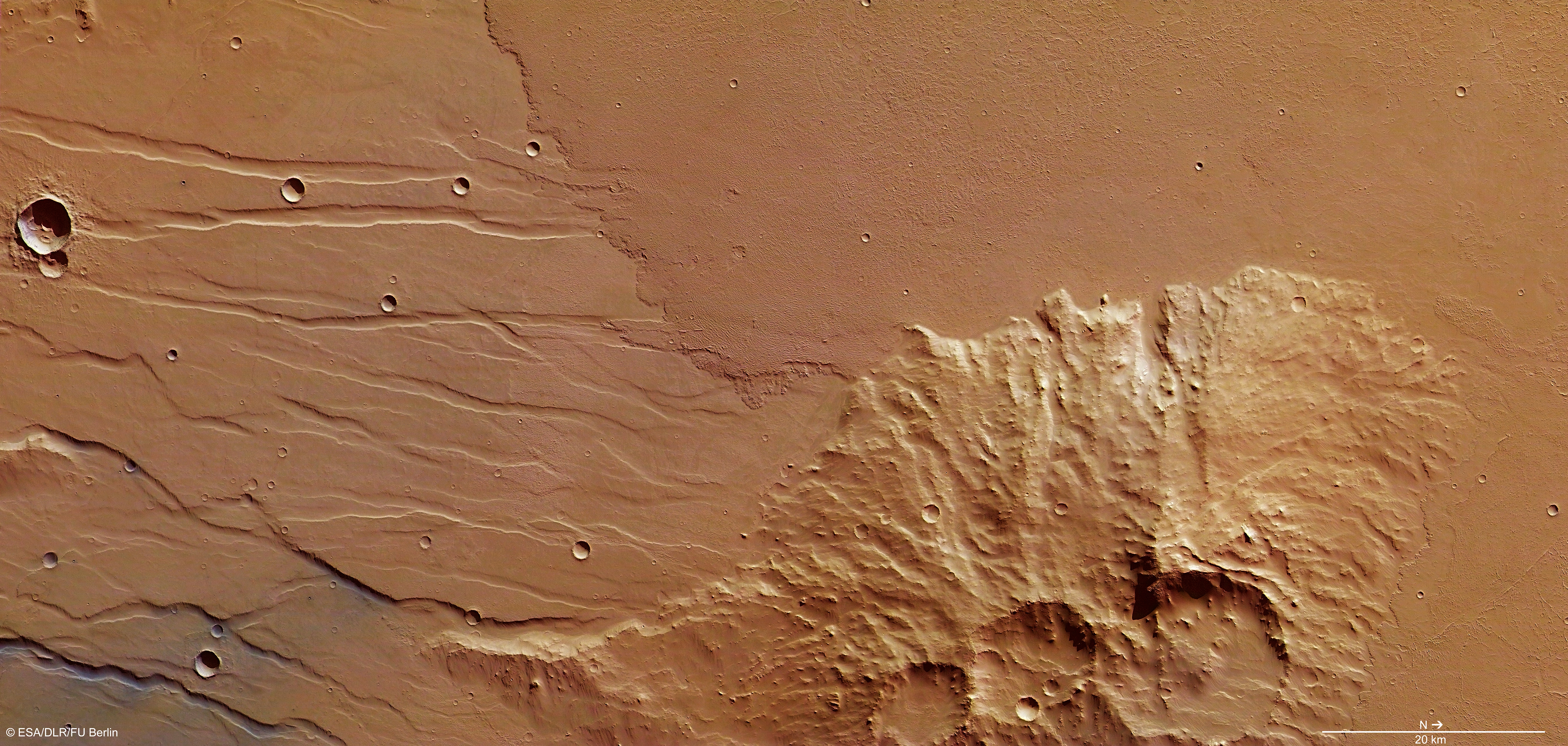 Two distinct volcanic eruptions have flooded this area of Daedalia Planum on Mars, flowing around an island of ancient terrain. The smooth, fractured terrain to the south (left) predates the rough-textured lava flow that dominates the northern (right) side of the image. The lava flows arose from the giant Arsia Mons volcano, part of the Tharsis complex around 1000 km to the northwest. The blue–grey colour at the bottom left of the image likely reflects a difference in the composition of exposed material: for example, wind-blown ash or dust deposits can easily accumulate in faults or channels. The image was created using data acquired on 28 November 2013 during Mars Express orbit 12 593 using the High Resolution Stereo Camera. The image resolution is about 14 m per pixel. The image centre is at about 25ºS/249ºE. North is right and east down. Read more: Credit: ESA/DLR/FU Berlin, CC BY-SA 3.0 IGO Copyright Notice: This work is licenced under the Creative Commons Attribution-ShareAlike 3.0 IGO (CC BY-SA 3.0 IGO) licence. The user is allowed to reproduce, distribute, adapt, translate and publicly perform this publication, without explicit permission, provided that the content is accompanied by an acknowledgement that the source is credited as 'ESA/DLR/FU Berlin’, a direct link to the licence text is provided and that it is clearly indicated if changes were made to the original content. Adaptation/translation/derivatives must be distributed under the same licence terms as this publication. To view a copy of this license, please visit